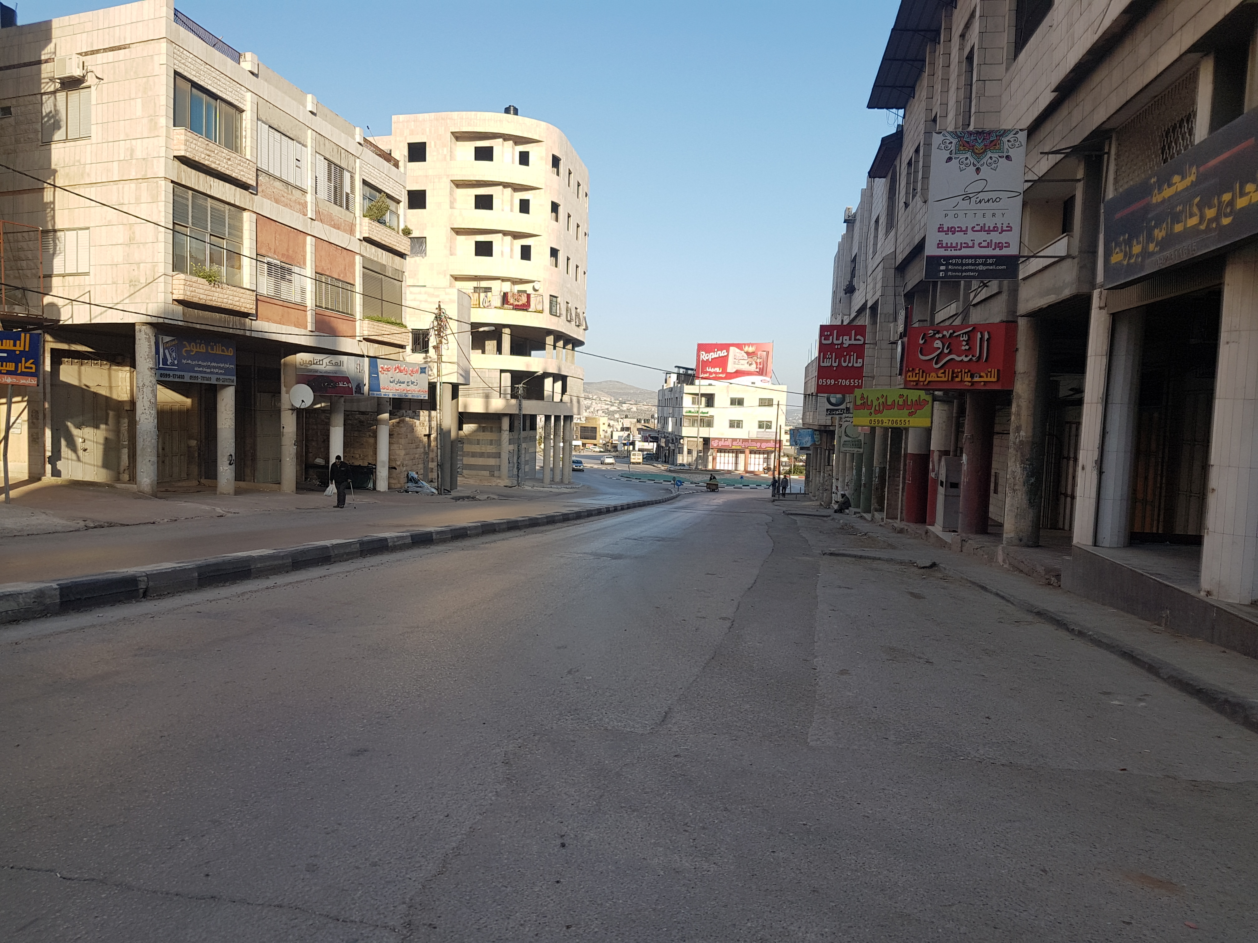 Amman Street in the city of Nablus on March 25, 2020, is empty of people, in implementation of the mandatory quarantine decision due to the Corona virus pandemic in Palestine 2020